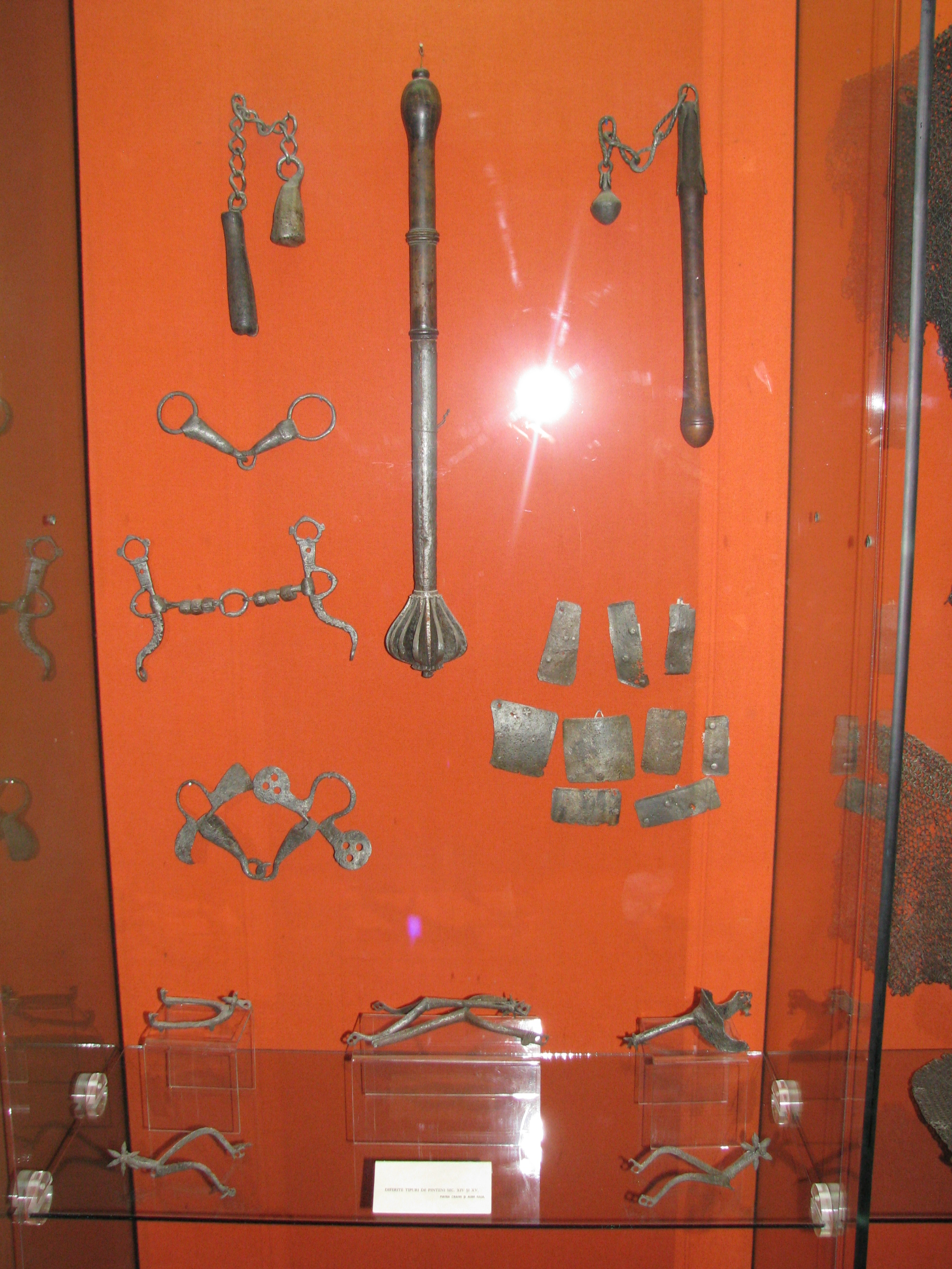 Alba Iulia National Museum of the Union 2011